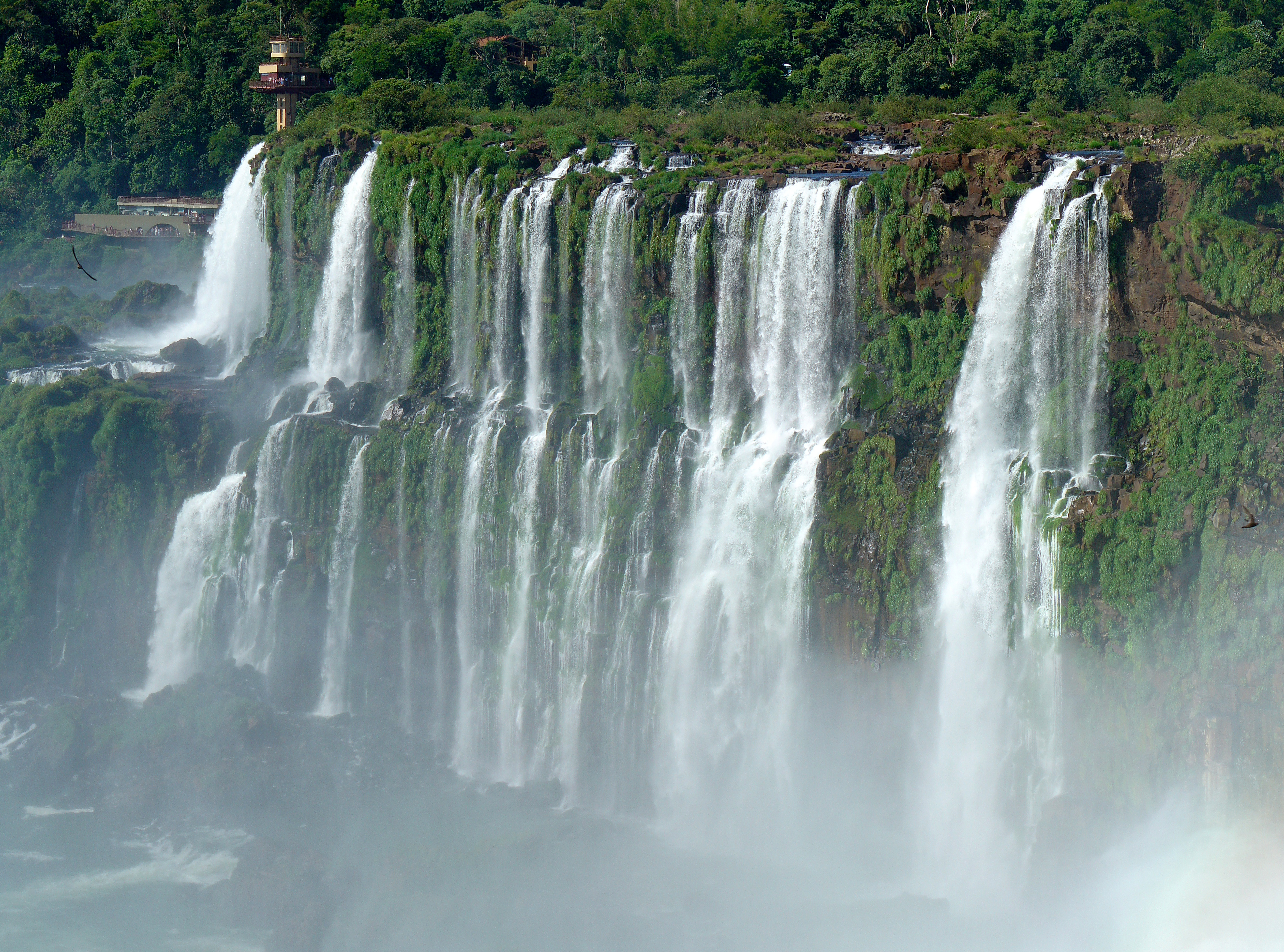 Brazilian portion of Iguazu waterfalls